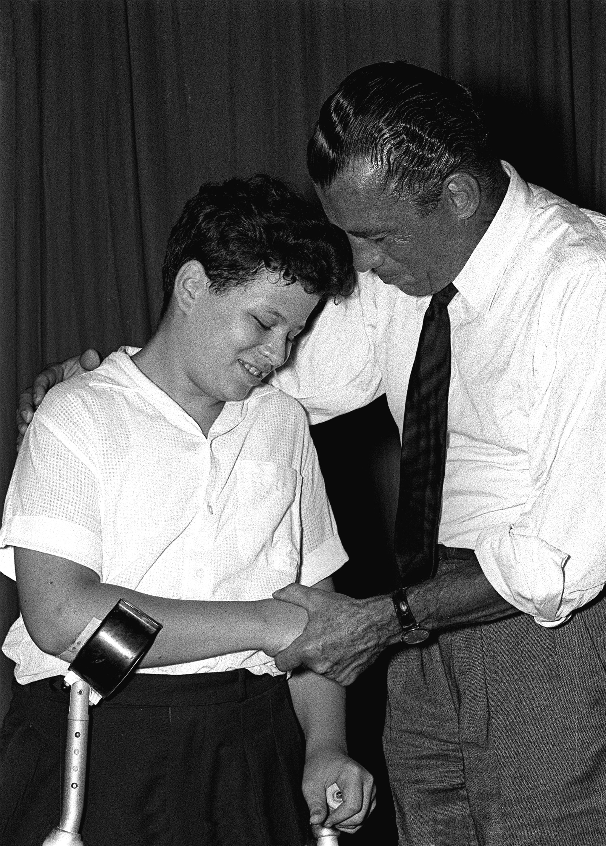 Ed Sullivan congratulates Izhak Perlman after a concert at ZOA House in Tel Aviv.